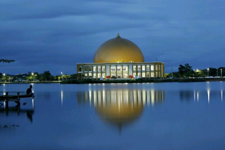 The Moaque is located at bypass raha behind the port of Raha